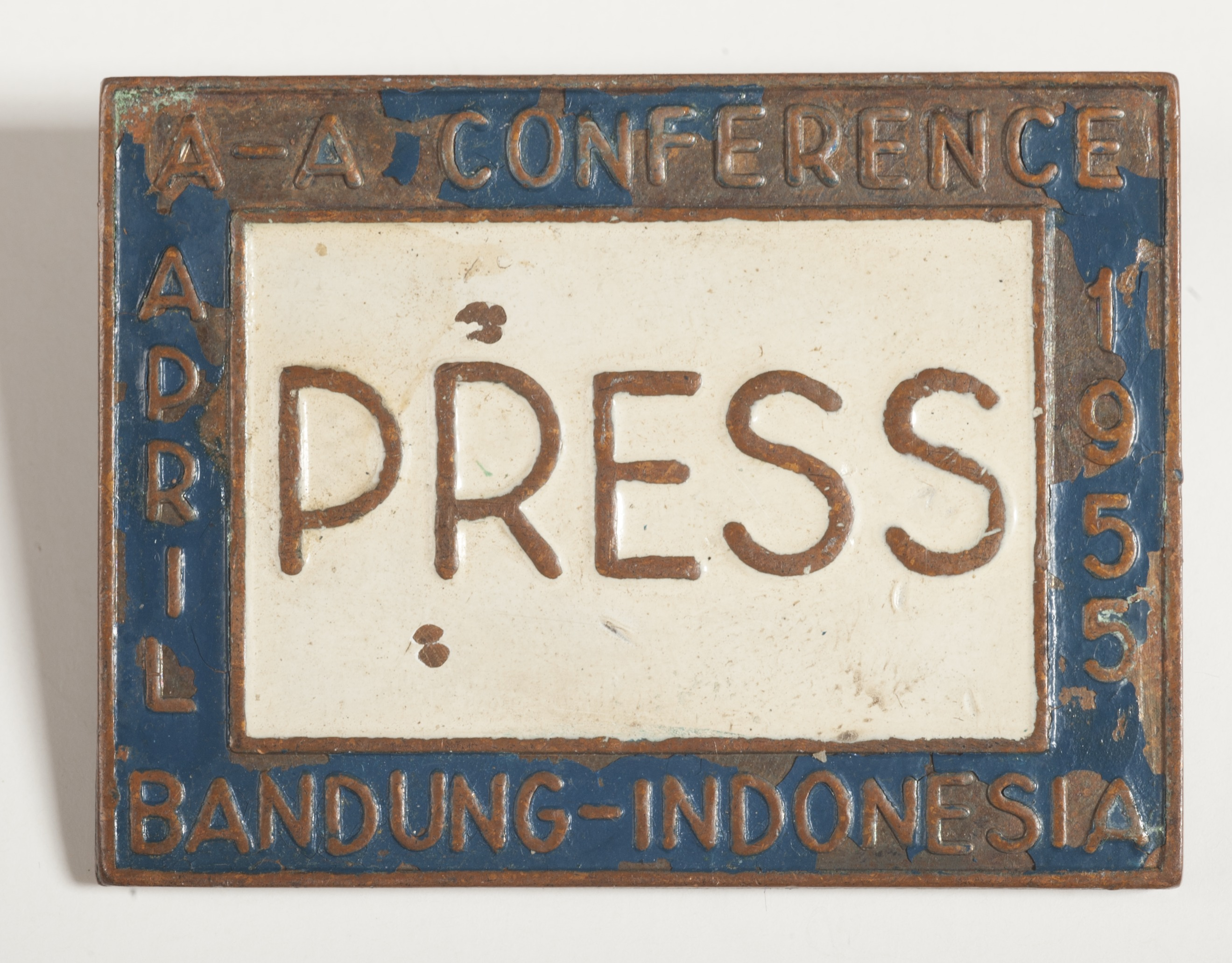 Anacostia Community Museum/Smithsonian Institution (ID acm_1991.0076.0141). Gift of Avis R. Johnson.